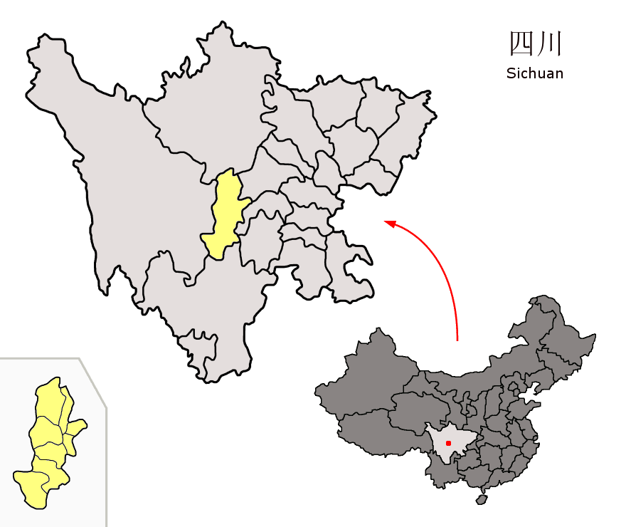 Location of Ya'an Prefecture (yellow) within Sichuan province of China Map drawn in october 2007 using various sources, mainly : Sichuan province administrative regions GIS data: 1:1M, County level, 1990 Sichuan Counties map from